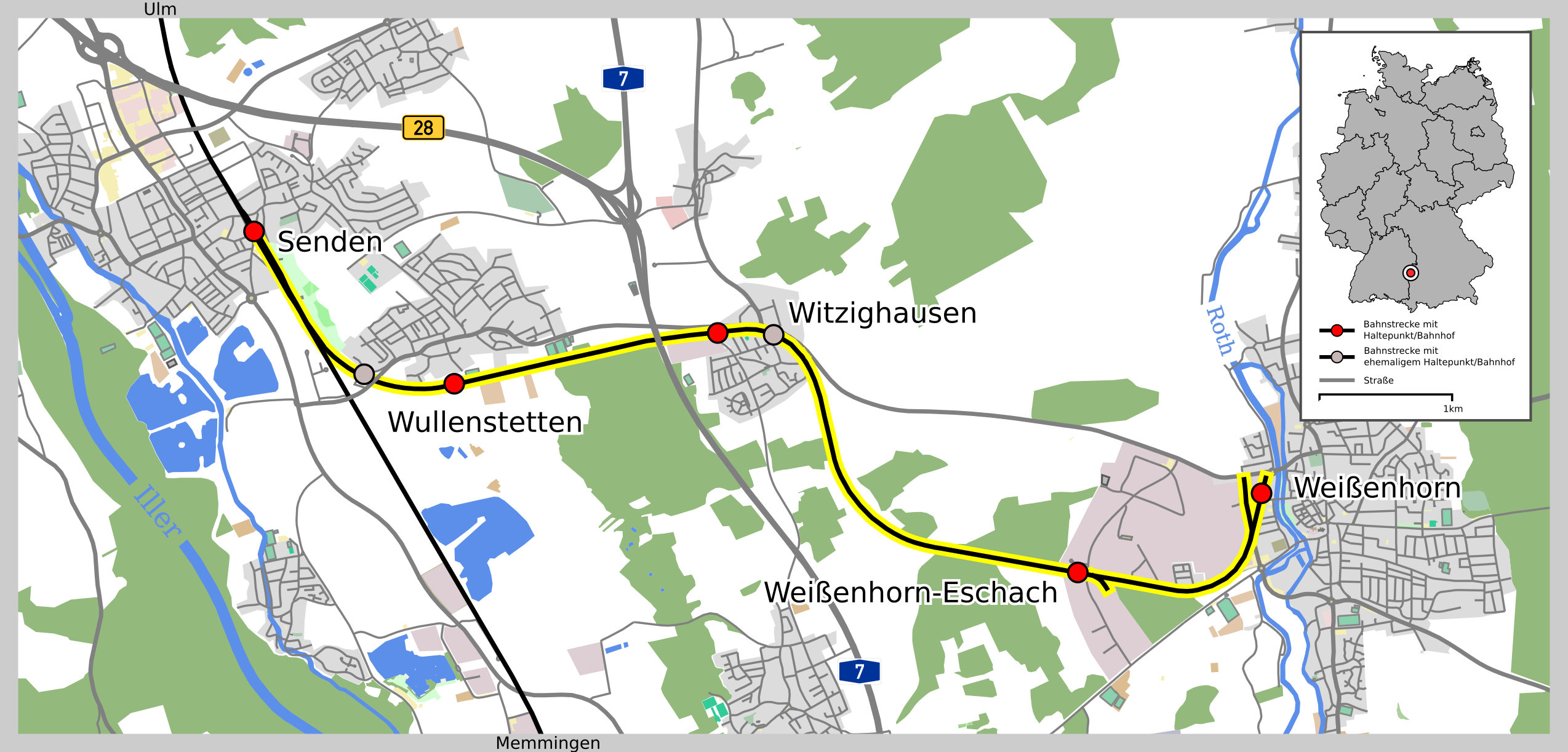 This map the Senden–Weißenhorn Railway was created from OpenStreetMap project data, collected by the community.This map may be incomplete, and may contain errors. Don't rely solely on it for navigation.